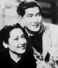 Setsuko Hara and Shūji Sano in 1949 Japanese movie Ojōson Kanpai!(A young lady toast!).